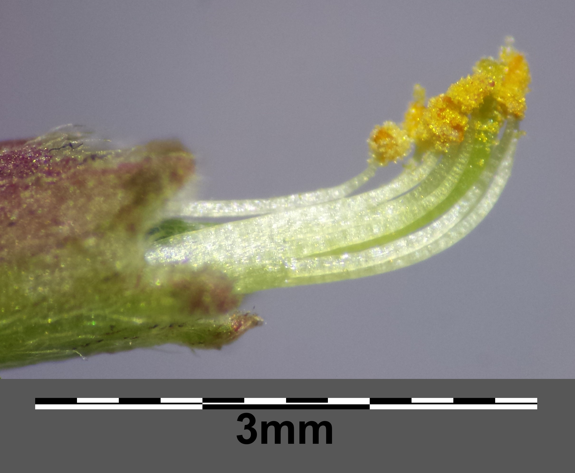 Diadelphous stamens Taxonym: Astragalus austriacus ss Fischer et al. EfÖLS 2008 ISBN 978-3-85474-187-9 Location: Kalvarienberg southwest of Pillichsdorf, district Mistelbach, Lower Austria - ca. 173 m a.s.l. Habitat: semi-dry grassland